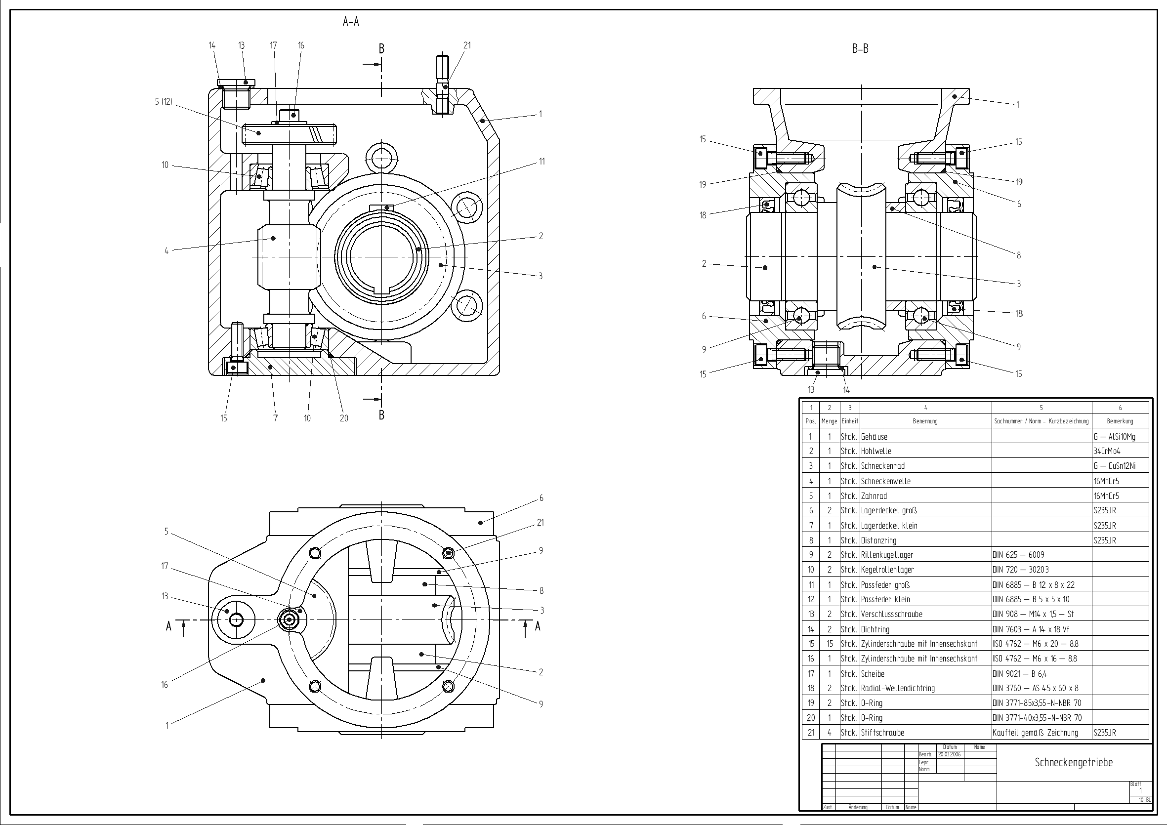 Engineering drawing (with BOM) of a worm gear, created with Solid Edge